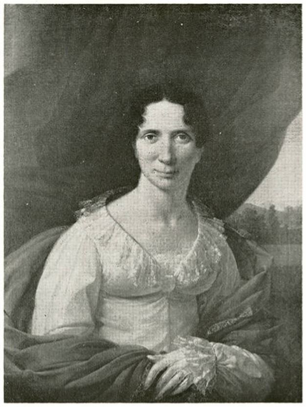 Portrait of Mary Sumner Blount by Pietro Bonanni (nb: source says "unknown", but given the description this is almost certainly the Bonanni portrait)